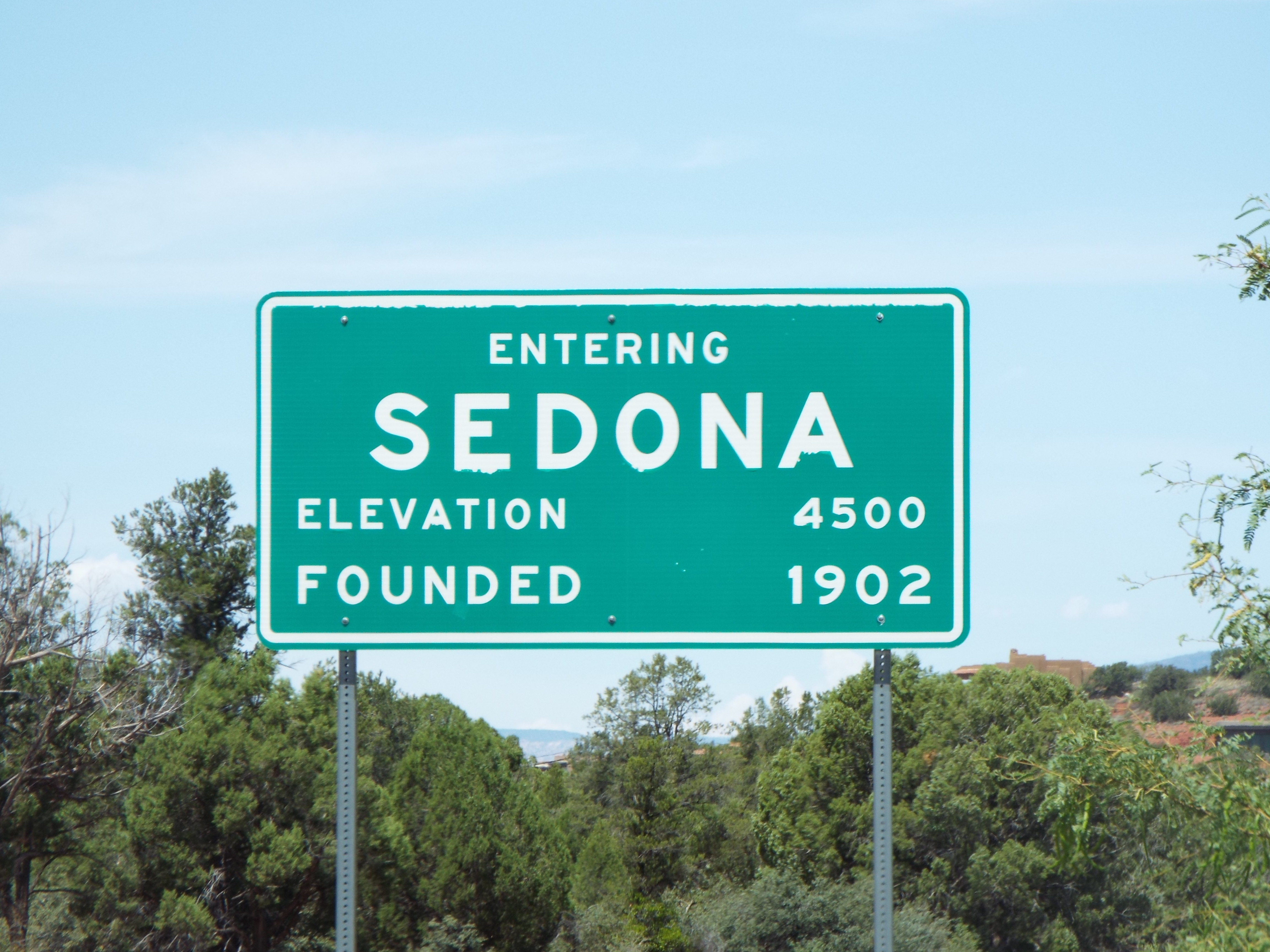 Sedona City Entrance in Arizona